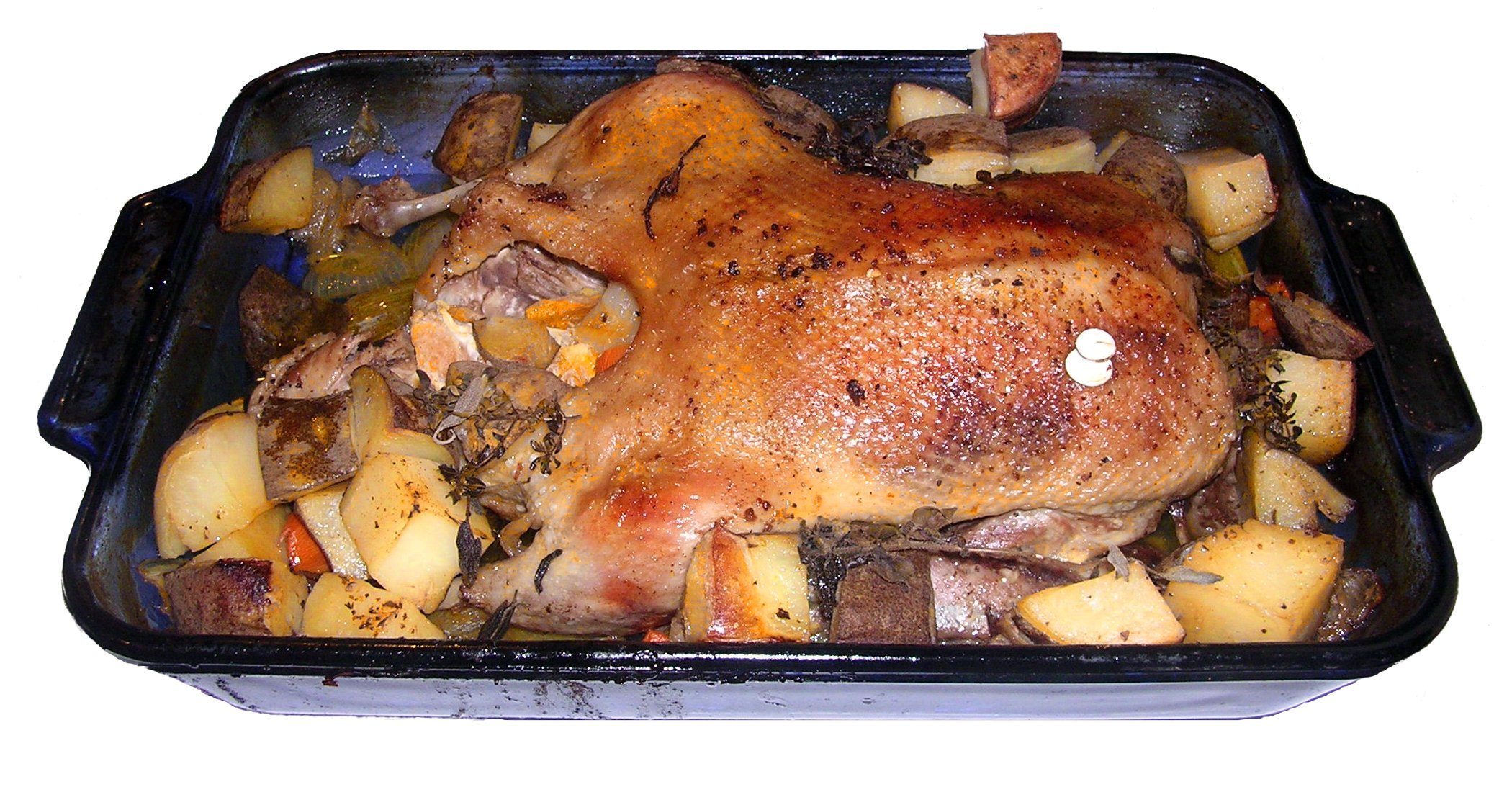 Roasted duck on a glass cooking tray with potatoes and other garnishes.